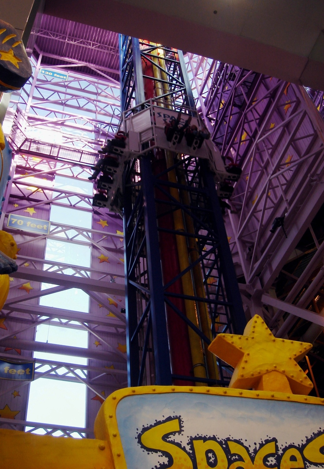 "Space Shot" in Galaxyland, West Edmonton Mall, Edmonton, Alberta, Canada